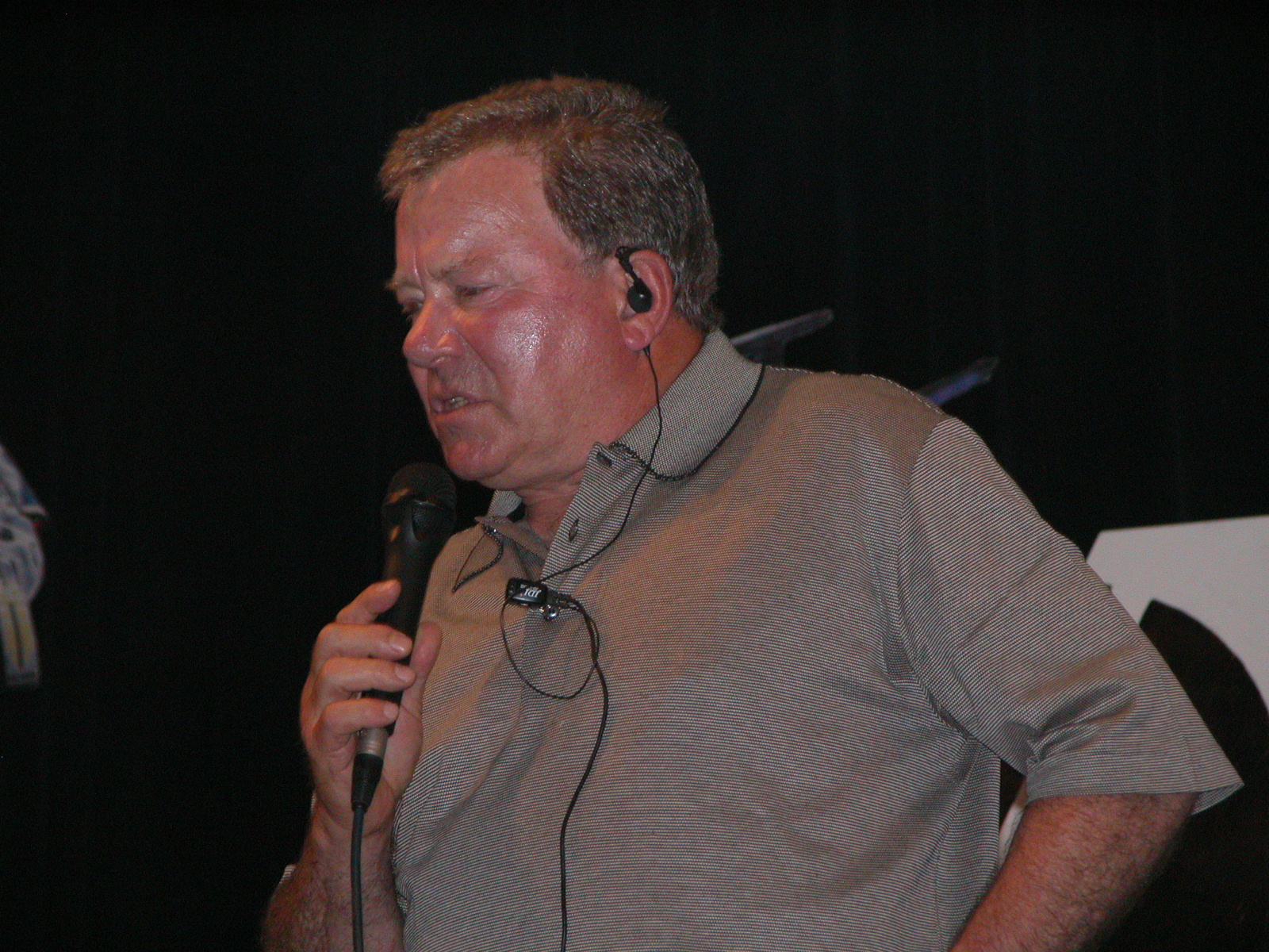 William Shatner